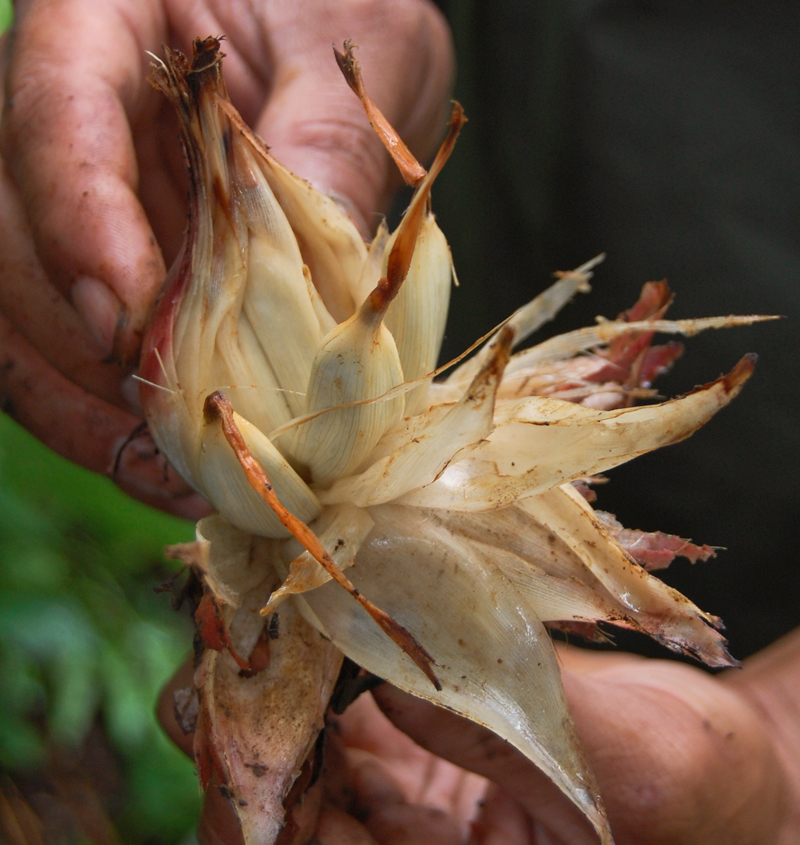 Fruit spike of Hornstedtia alliacea opened, to show its individual fruit. Sukabumi, West Java.